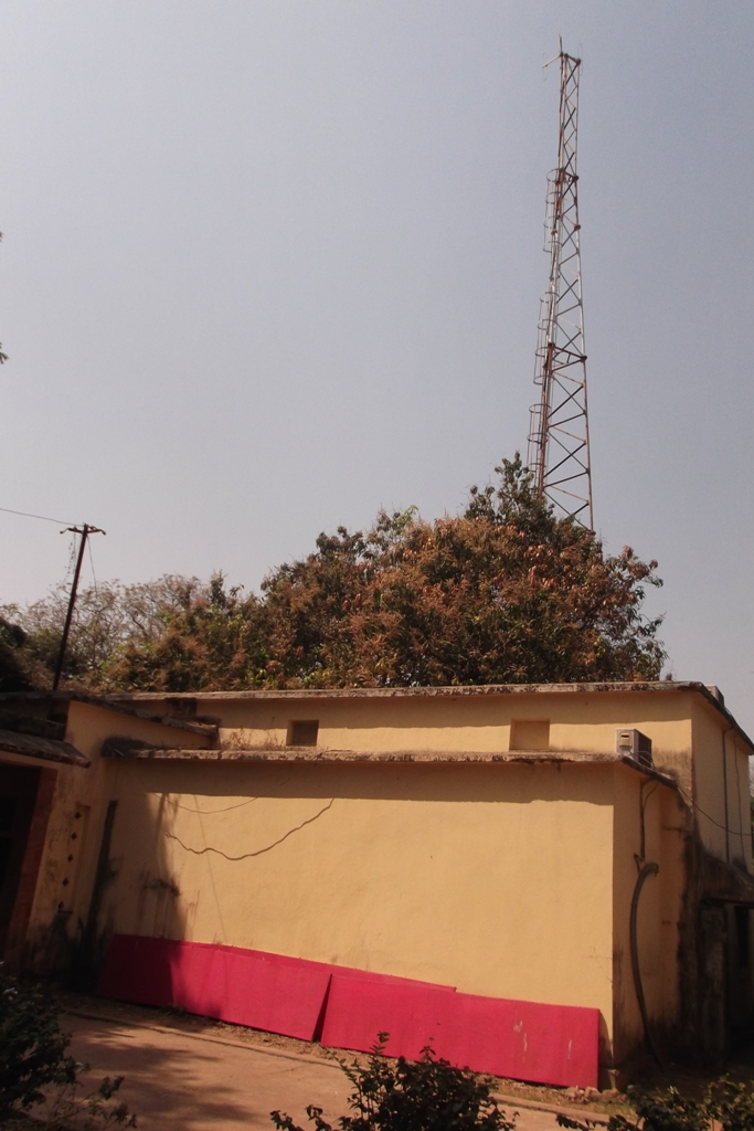 Outside view of Ravenshaw Radio